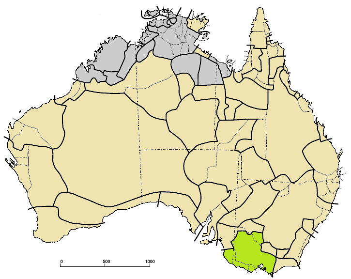 Kulinic languages (green) among other Pama–Nyungan (tan). Along the coast, the three groups are (west to east) Drual, Kolakngat, and Kulin.